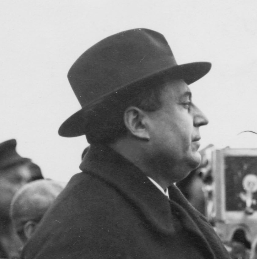 Léonce Perret's photo.